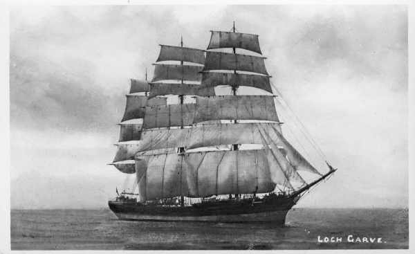 Creator unknown. Black and white photograph of Loch Garve. Item held by State Library of Victoria as part of the David Little postcard collection of sailing ships. Image number: H93.8/160.